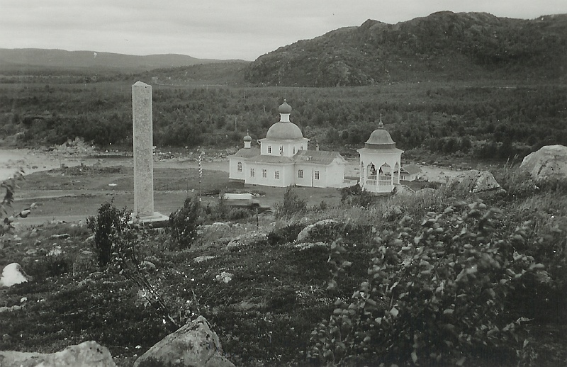 Alaluostari in Pechenga.